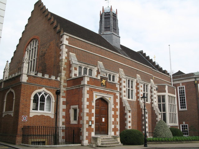 The Hall of Gray's Inn, WC1. Shows the location of 1266679.